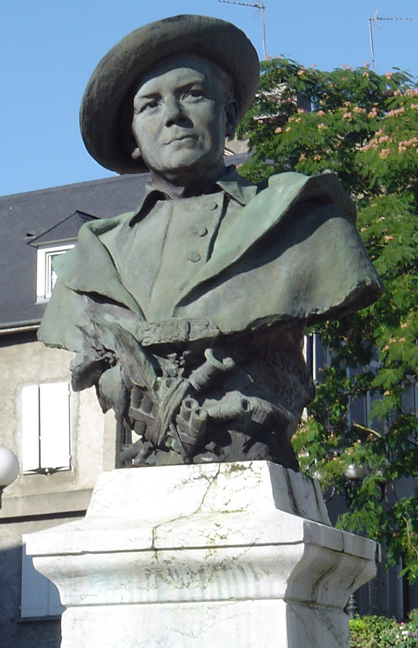 Xavièr Navarròt, occitan writer